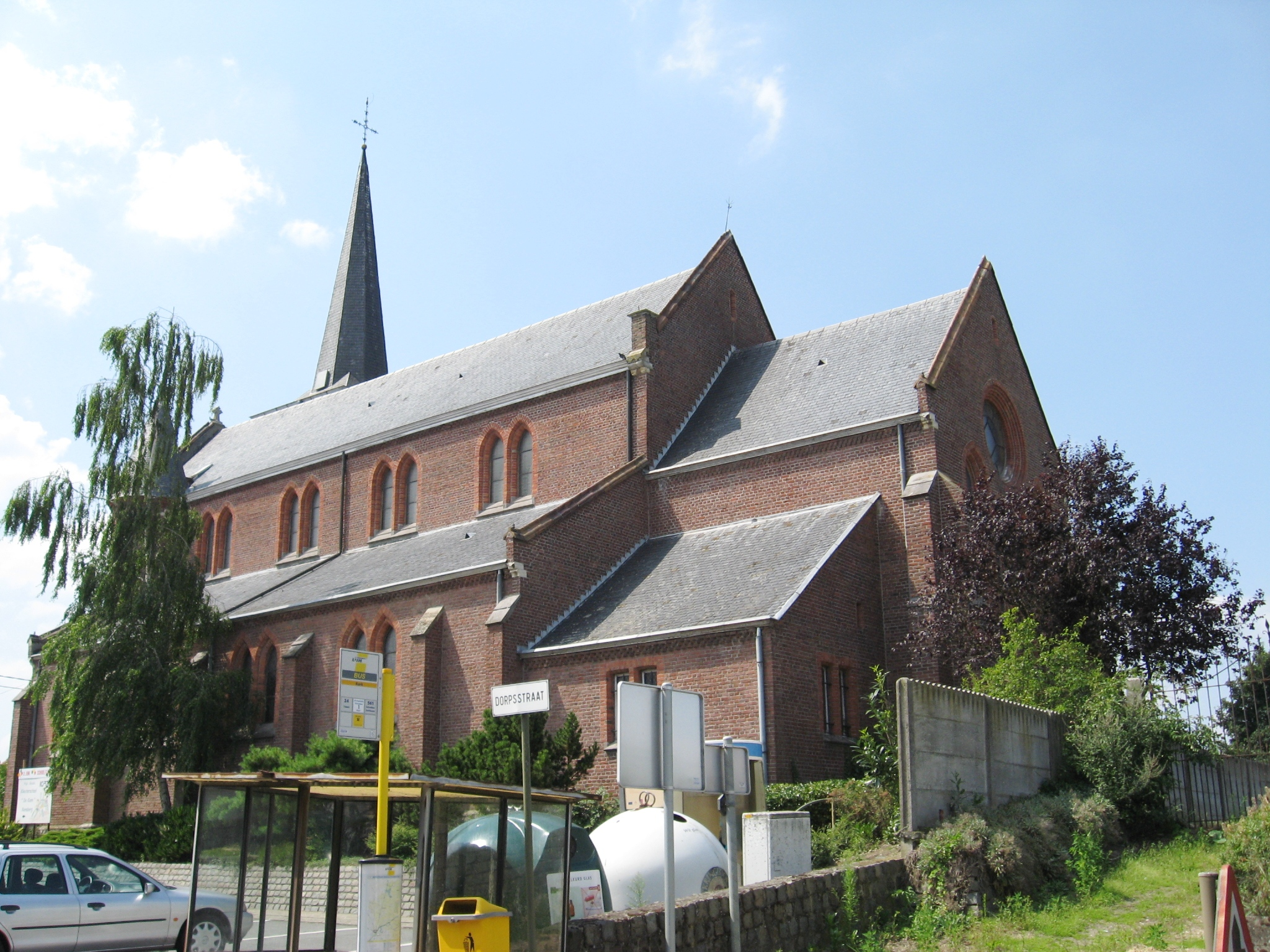 Church of Our Lady of the Rosary in Ransberg, Kortenaken, Flemish Brabant, Belgium